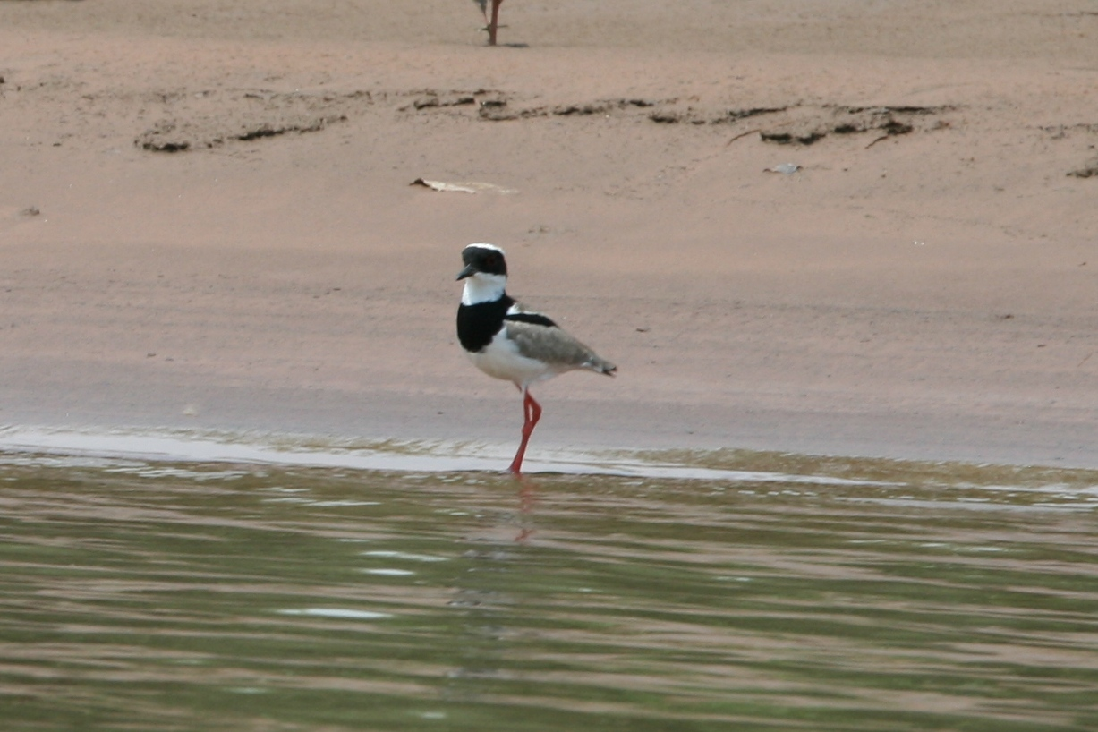 Pied Plover or Avefria Pinta Hoploxypterus cayanus along the Tuichi River, Madidi National Park, Bolivia.